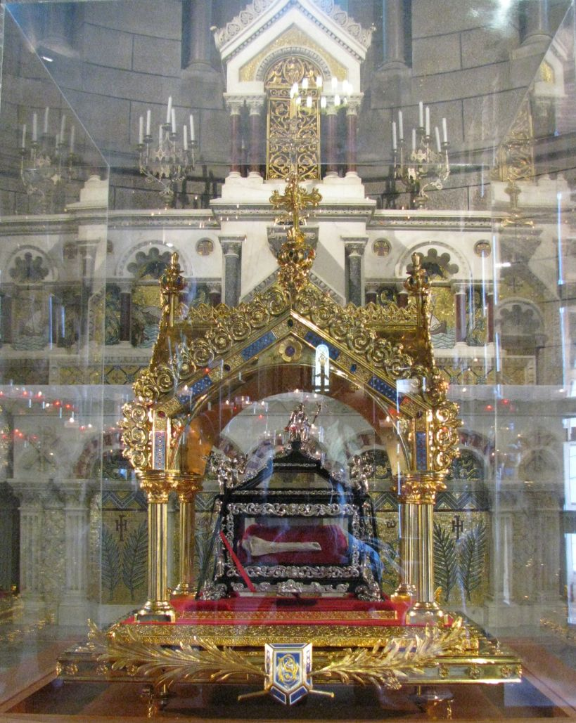 Relics of st. Devota (Monaco cathedral)